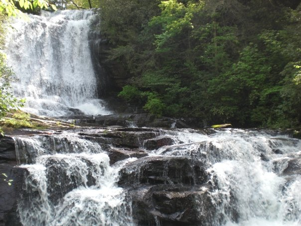 Connestee Falls, near Cedar Mountain, North Carolina